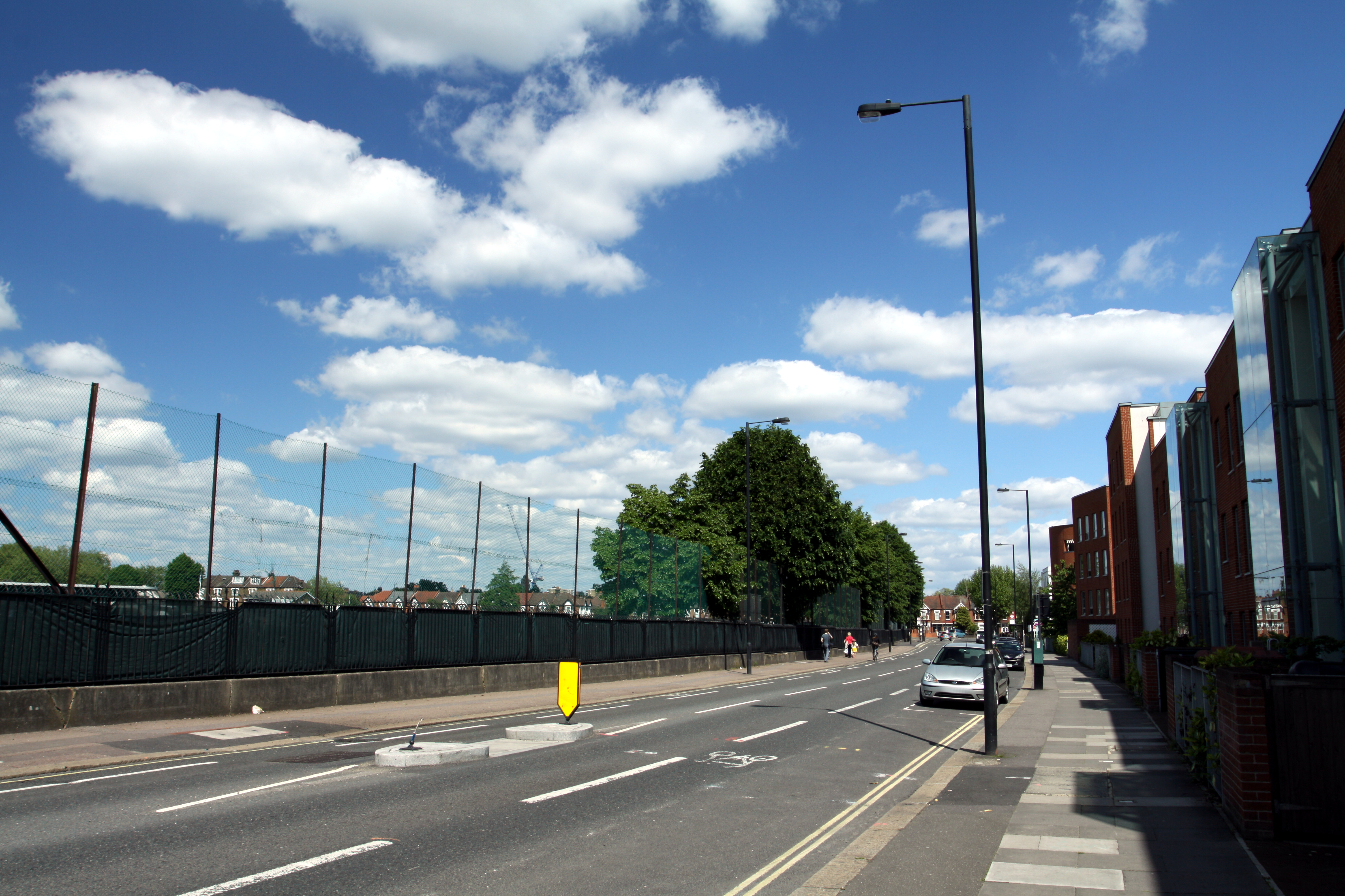 Du Cane Road in the London Borough of Hammersmith and Fulham, London, England, Great Britain The making of this file was supported by Wikimedia UK.